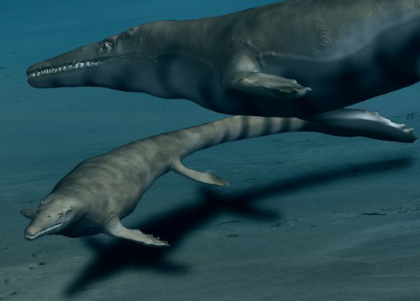 Mosasaurus hoffmani, a mosasaur from the Late Cretaceous of North America and Europe,Digital.